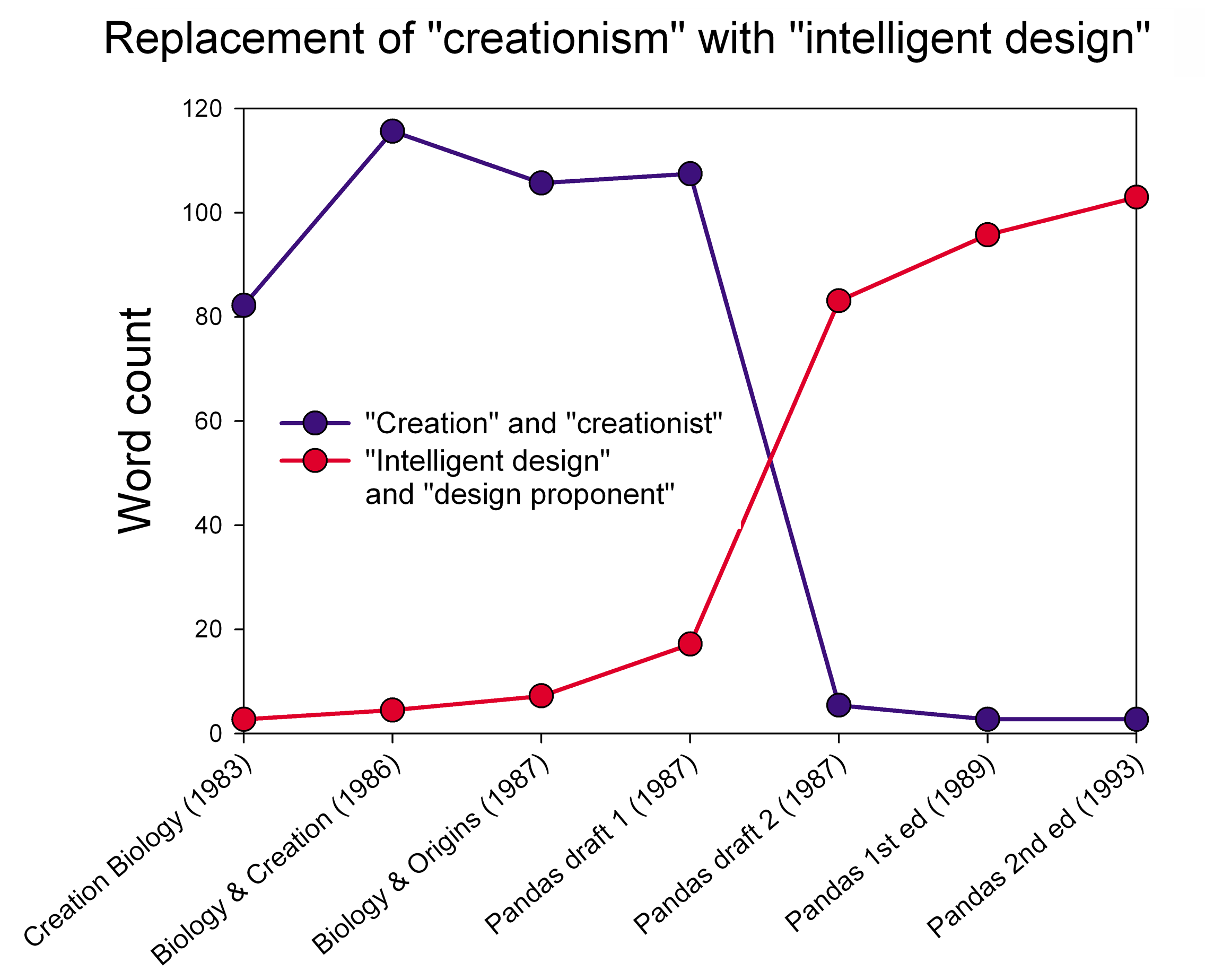 Textual analysis of the various drafts and precursors of the Intelligent Design book Of Pandas and People showing the frequencies of the terms "creation or "creationist" versus "intelligent design" and "design proponent". Based on data from the Barbara Forrest's testimony in the court case Kitzmiller v. Dover..